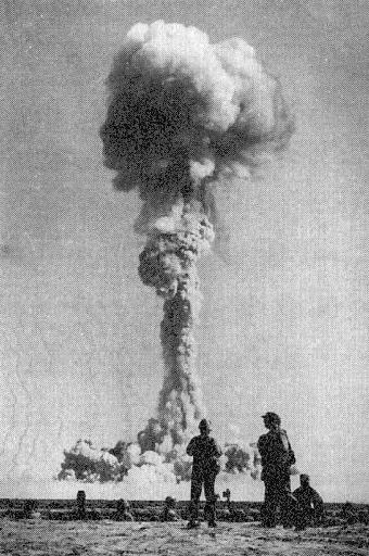 Military Exercise "Desert Rock VI" during Operation Teapot